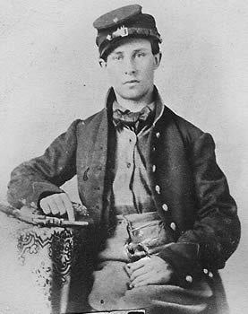 Ludlow Hall: Age, 18 years. Enlisted November 4th, 1861 at New York City. Mustered into Company I (61th New York Volunteer Infantry) as a private November 6th, 1861. Died of disease, July 27th, 1862 at Newport News, VA.